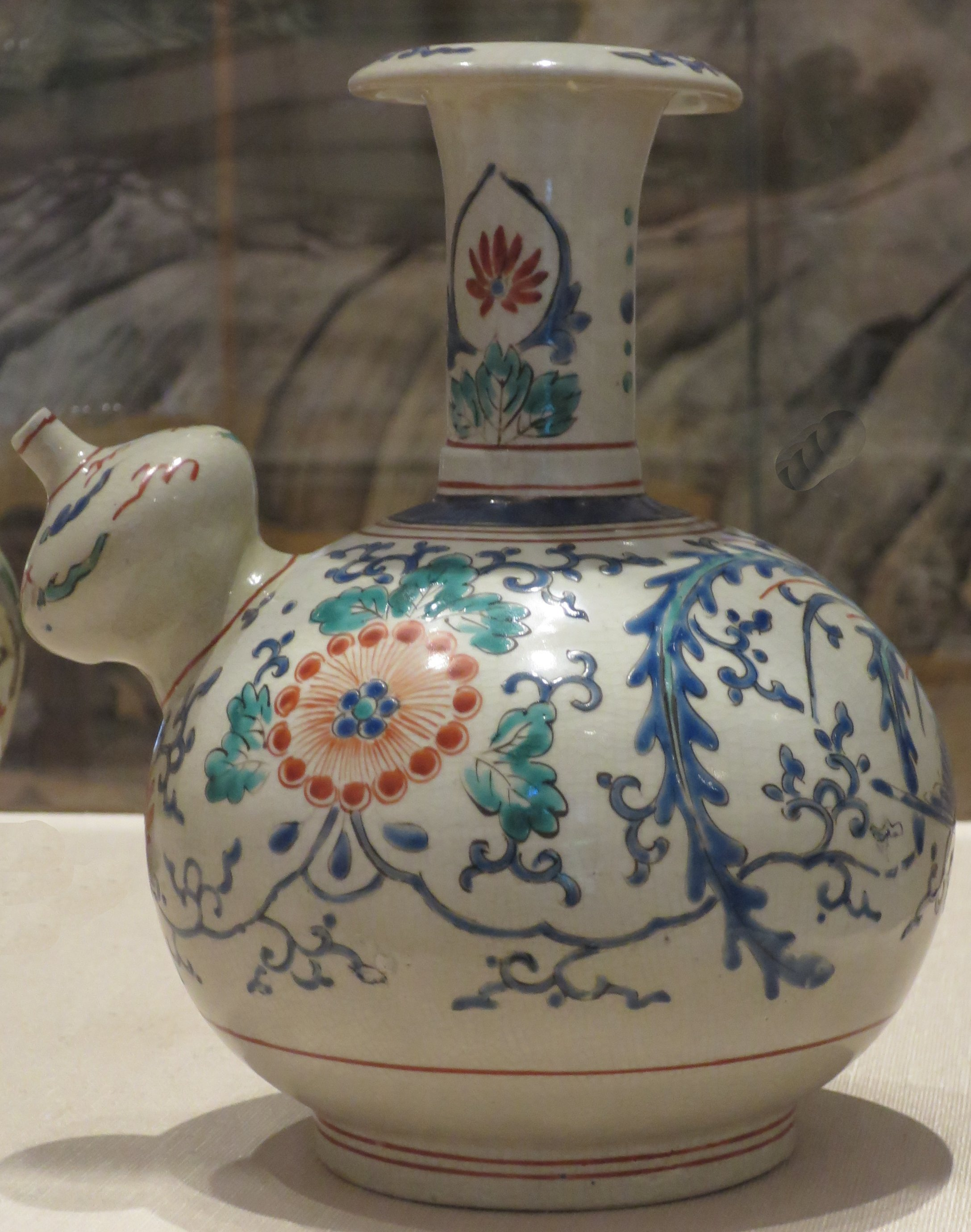 Ritual pouring vessel (kendi) from Japan, Edo period, 17th century, porcelain with enamel, Honolulu Museum of Art accession 3569.1